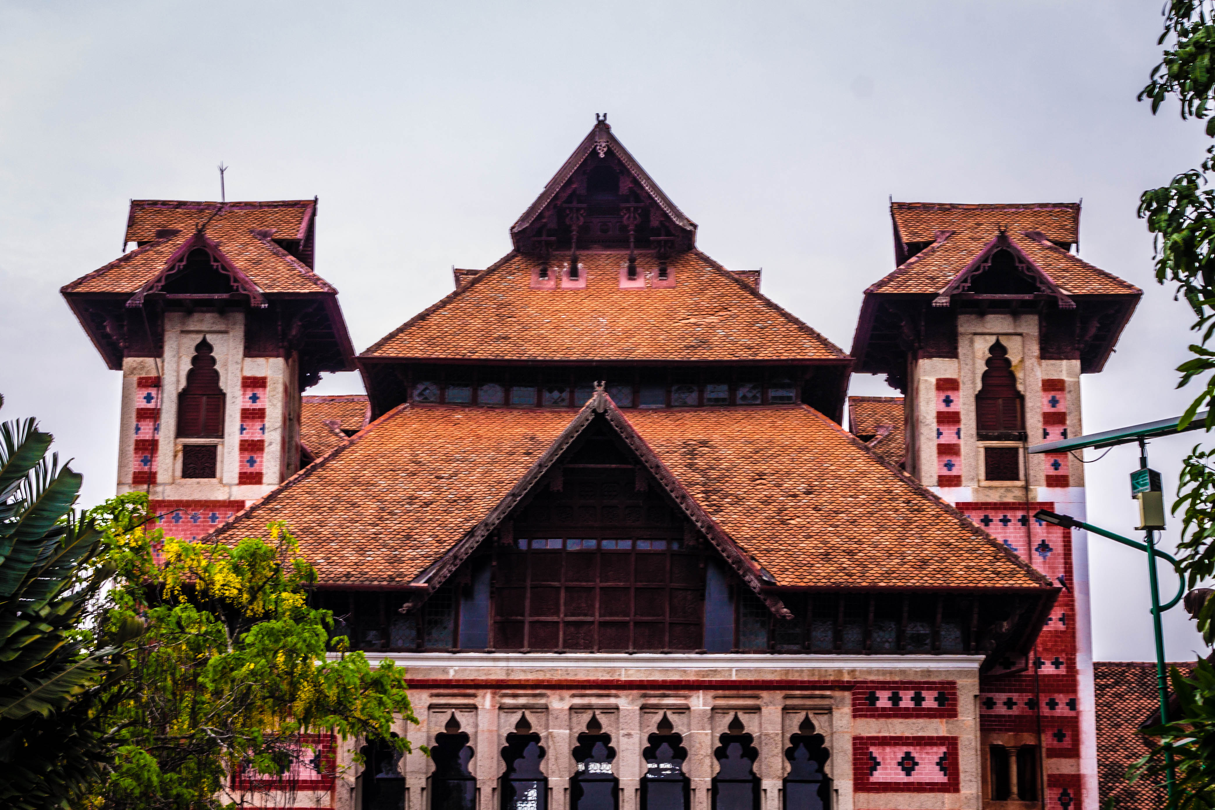 The Napier Museum is an art and natural history museum situated in Thiruvananthapuram (Trivandrum), the capital city of Kerala, India.